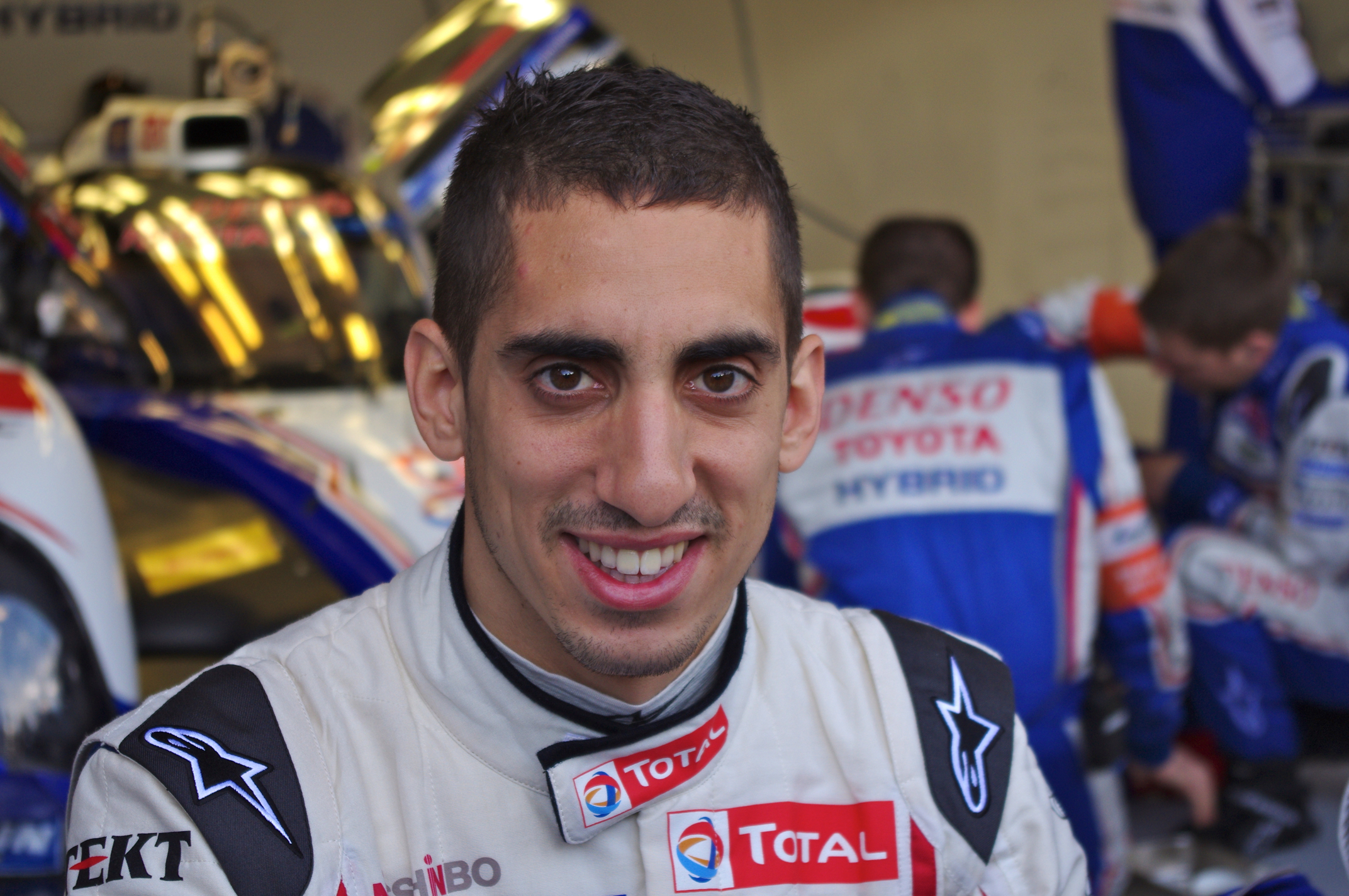 WEC Silverstone 6 Hours 2013: Sébastien Buemi (Toyota)